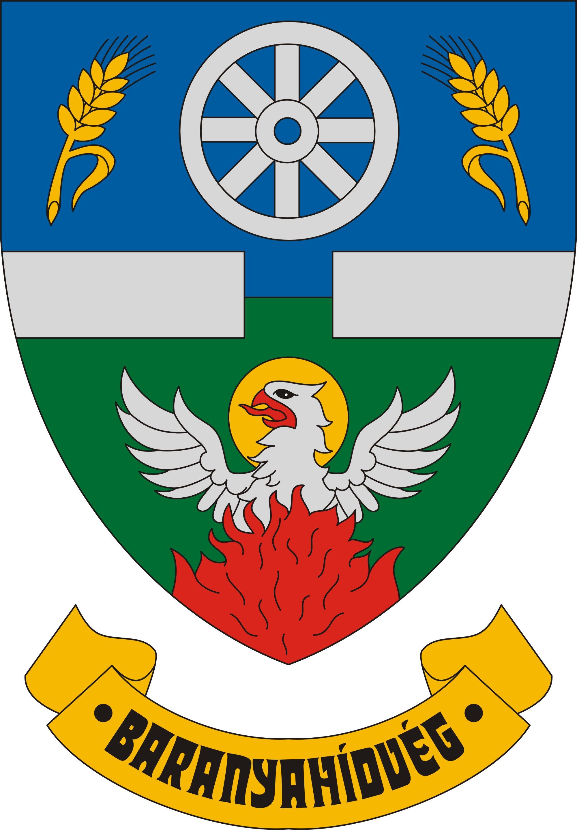 Coat of arms of Baranyahídvég, Hungary